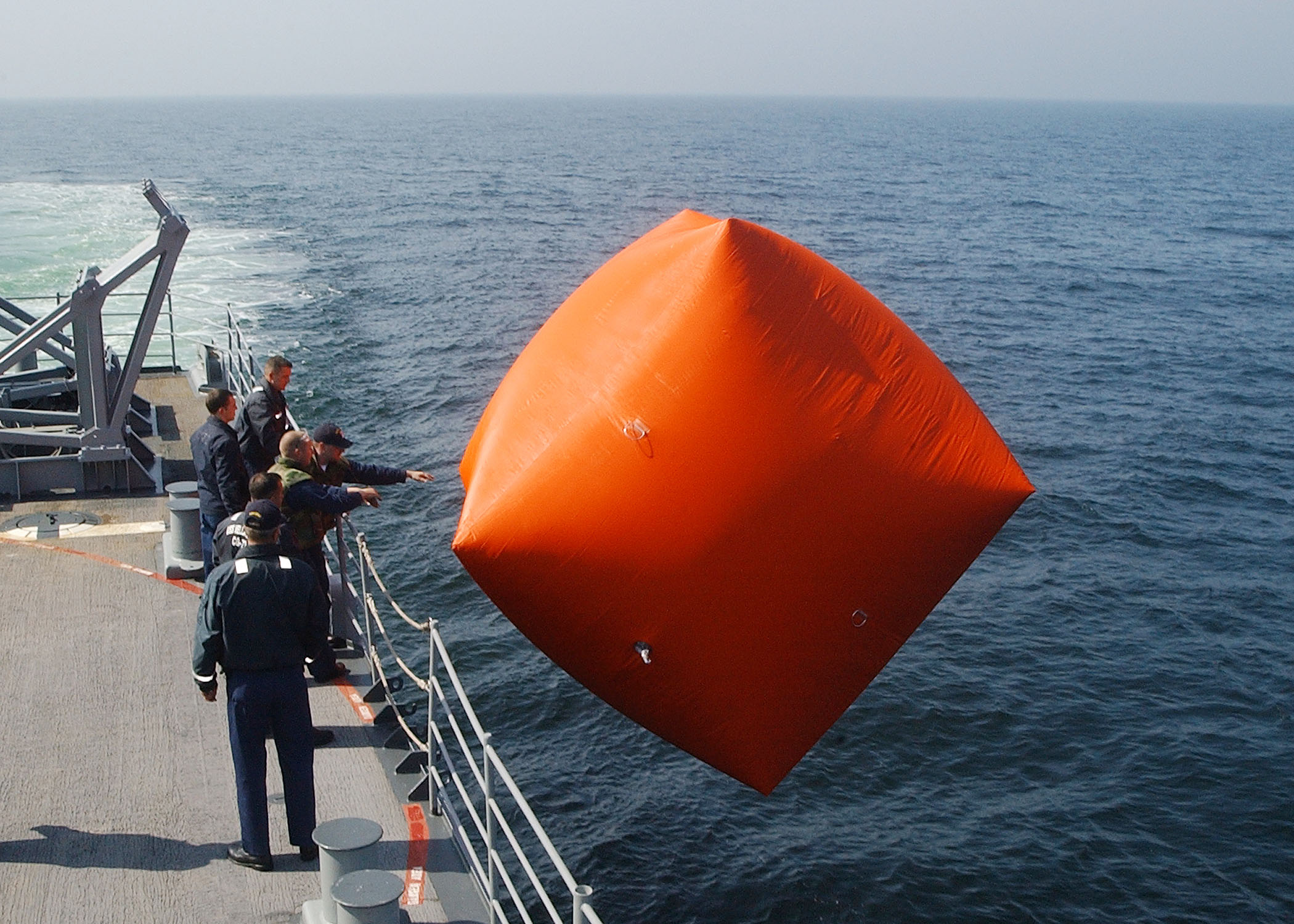 Baltic Sea (Jun. 11, 2003) -- Sailors launch a "killer tomato" prior to executing a small arms training exercise aboard the Ticonderoga class cruiser USS Vella Gulf (CG 72) during the annual maritime exercise Baltic Operations 2003 (BALTOPS 2003). A "killer tomato" is a large orange balloon used as a target during live fire targeting exercises for small caliber weapons. The United States and 12 other nations are participating in this year's exercise. BALTOPS 2003 is intended to improve interoperability between allies and Partnership for Peace countries by conducting a peace support operation at sea including exercises in gunnery, replenishment-at-sea, undersea warfare, radar tracking, mine countermeasures, seamanship, search and rescue, maritime interdiction operations, and scenarios dealing with potentially real world crises. U.S. Navy photo by Photographer’s Mate 2nd Class Michael Sandberg. (RELEASED)